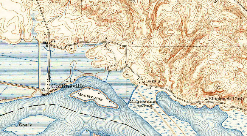 Collinsville, Calif in 1918